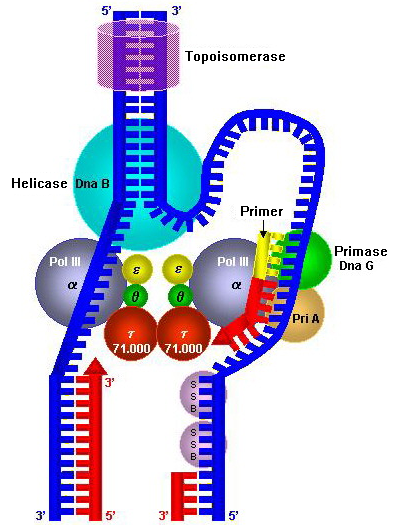 Model of the E. coli replisome complex